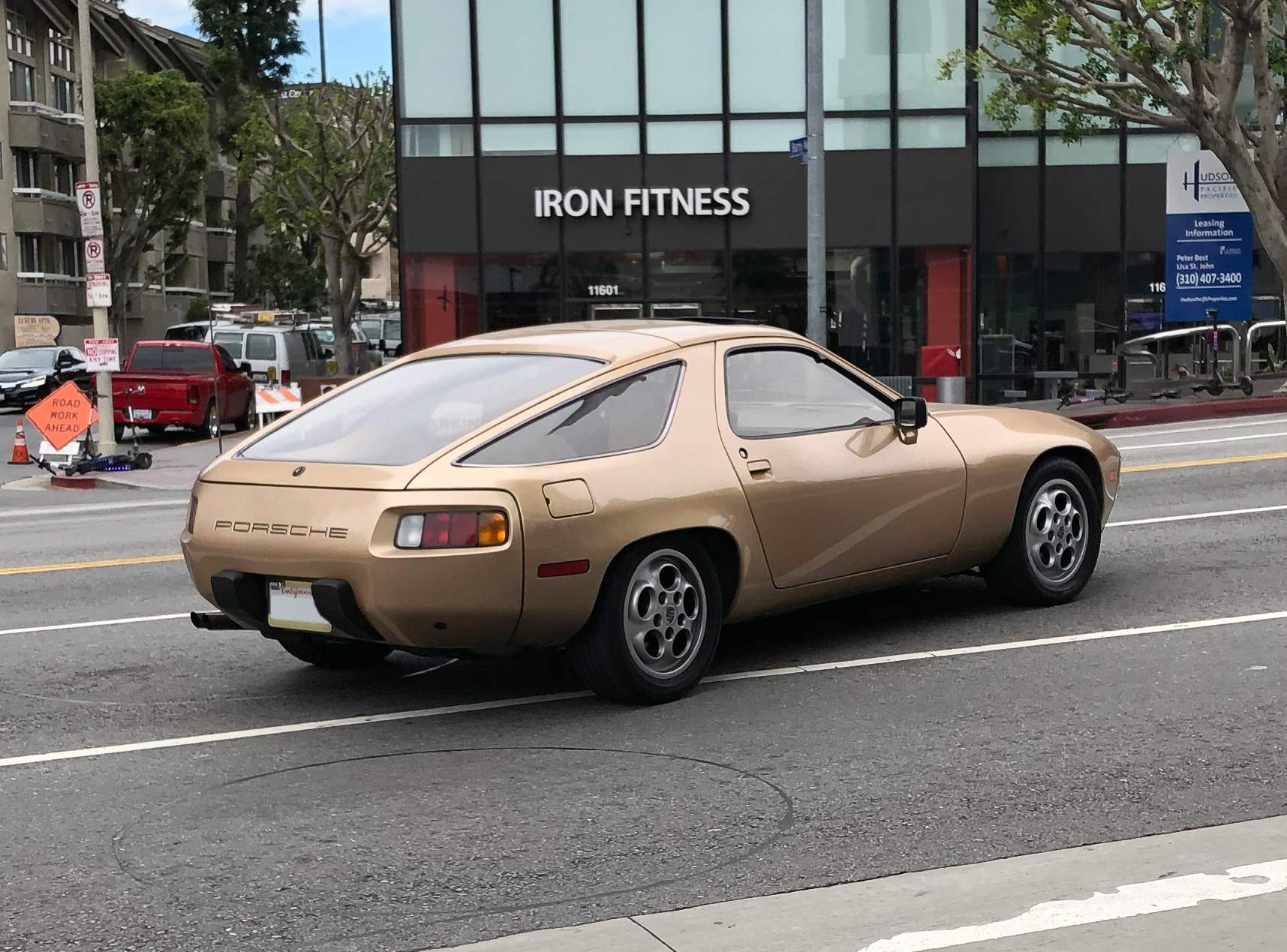 Car in Santa Monica, California